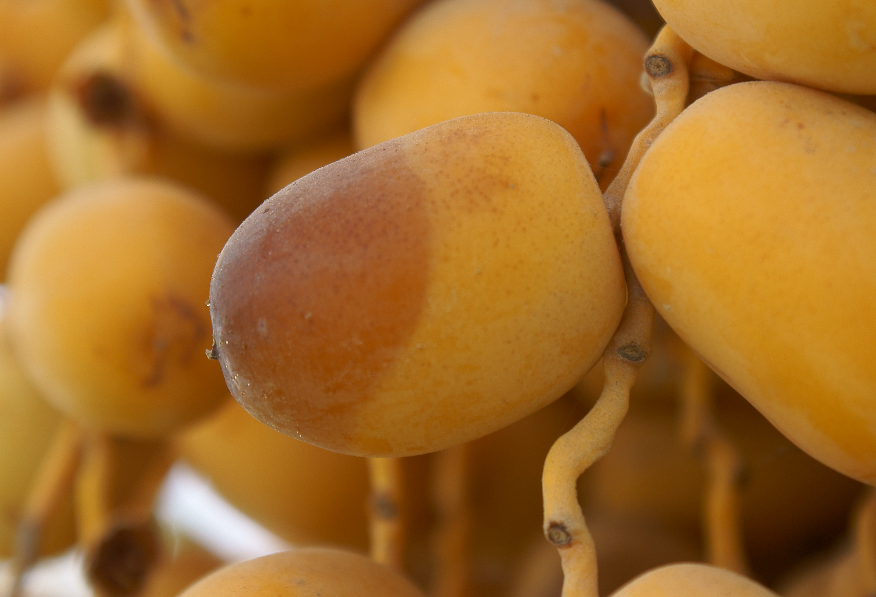 Date ripening on a phoenix dactylifera.